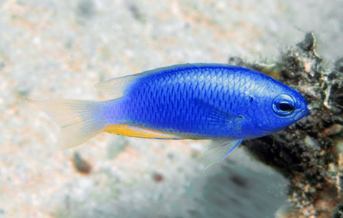 Underwater photograph of adult Pomacentrus micronesicus (70 mm total length). Near Kwajalein Atoll, Marshall Islands at 5 to 8 m in depth. Courtesy of Jeanette Johnson.